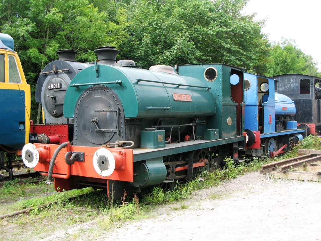 Peckett steam locomotives Lady Angela and Ashley at Buckfastleigh on the South Devon Railway, England.